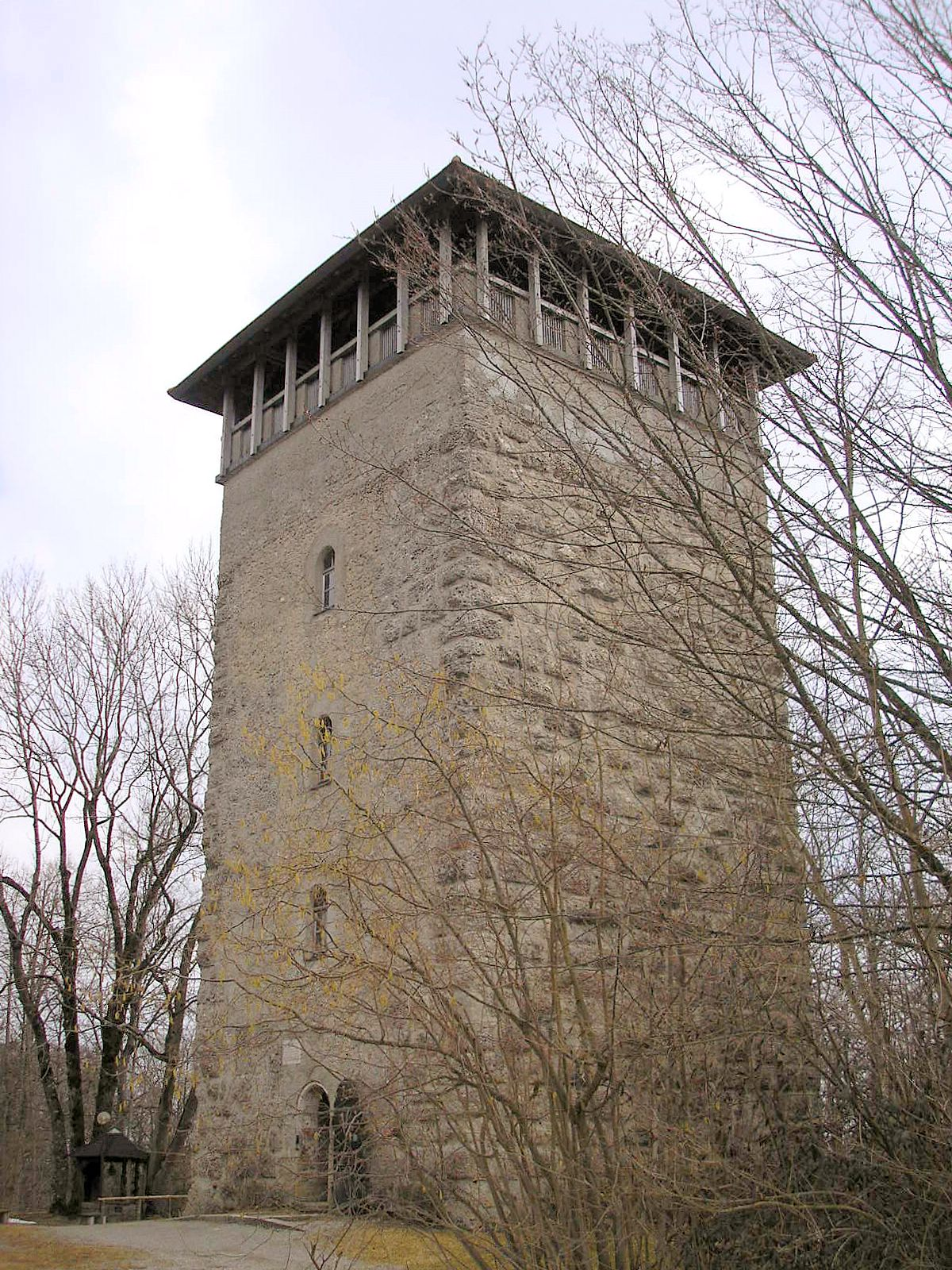 Kemnat castle (Kleinkemnat, Stadt Kaufbeuren, Allgäu, Bavaria). The High Middle Ages keep